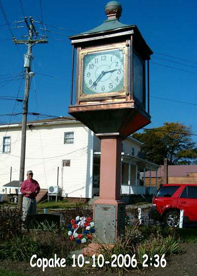 The Copake Clock in Oct. 2006